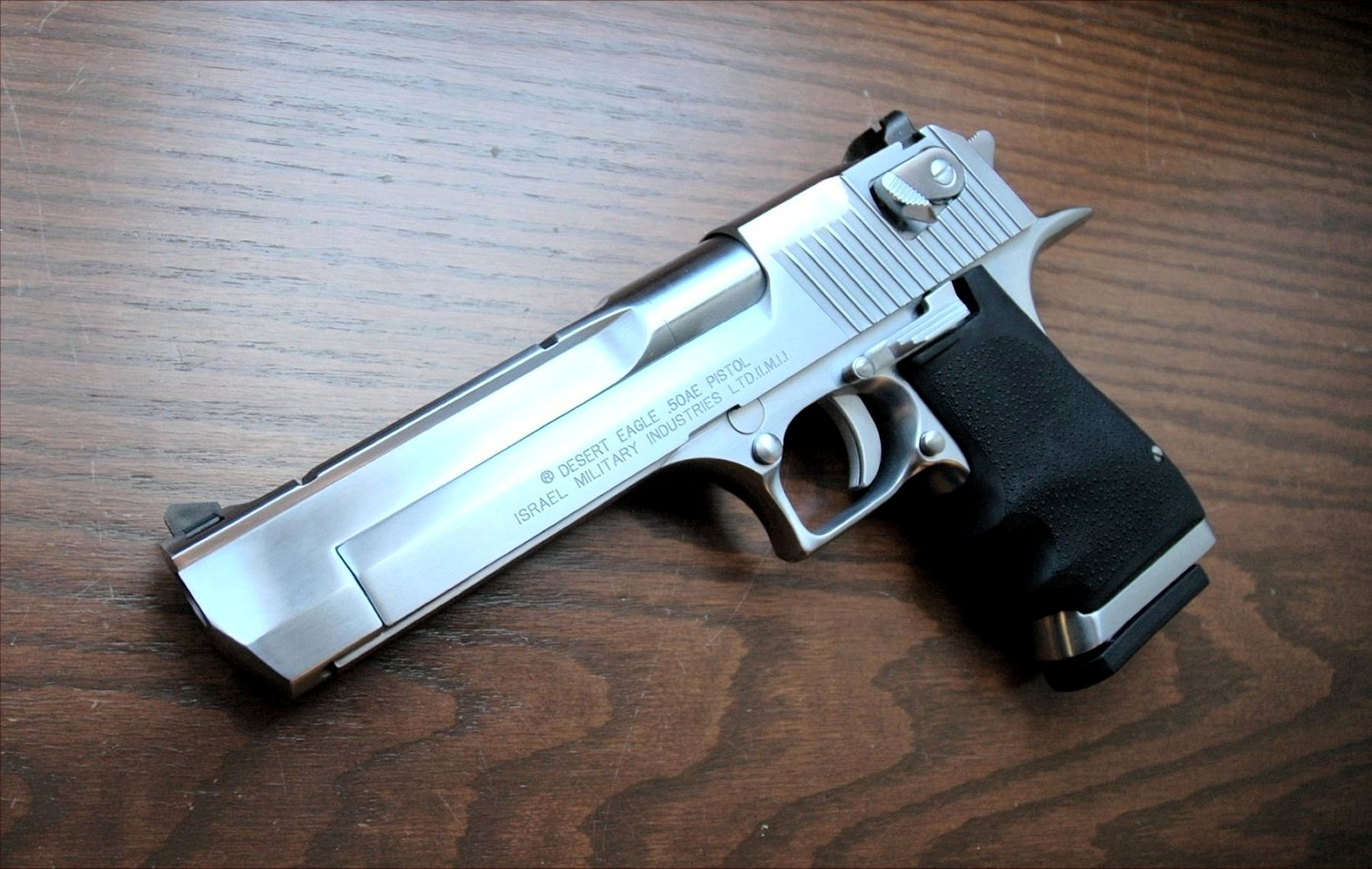 Desert Eagle 50 caliber brushed chrome